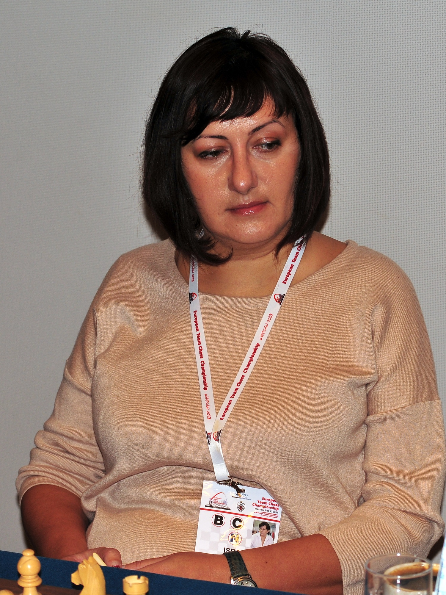 IM Masha Klinova, European Chess Team Championship Warsaw 2013